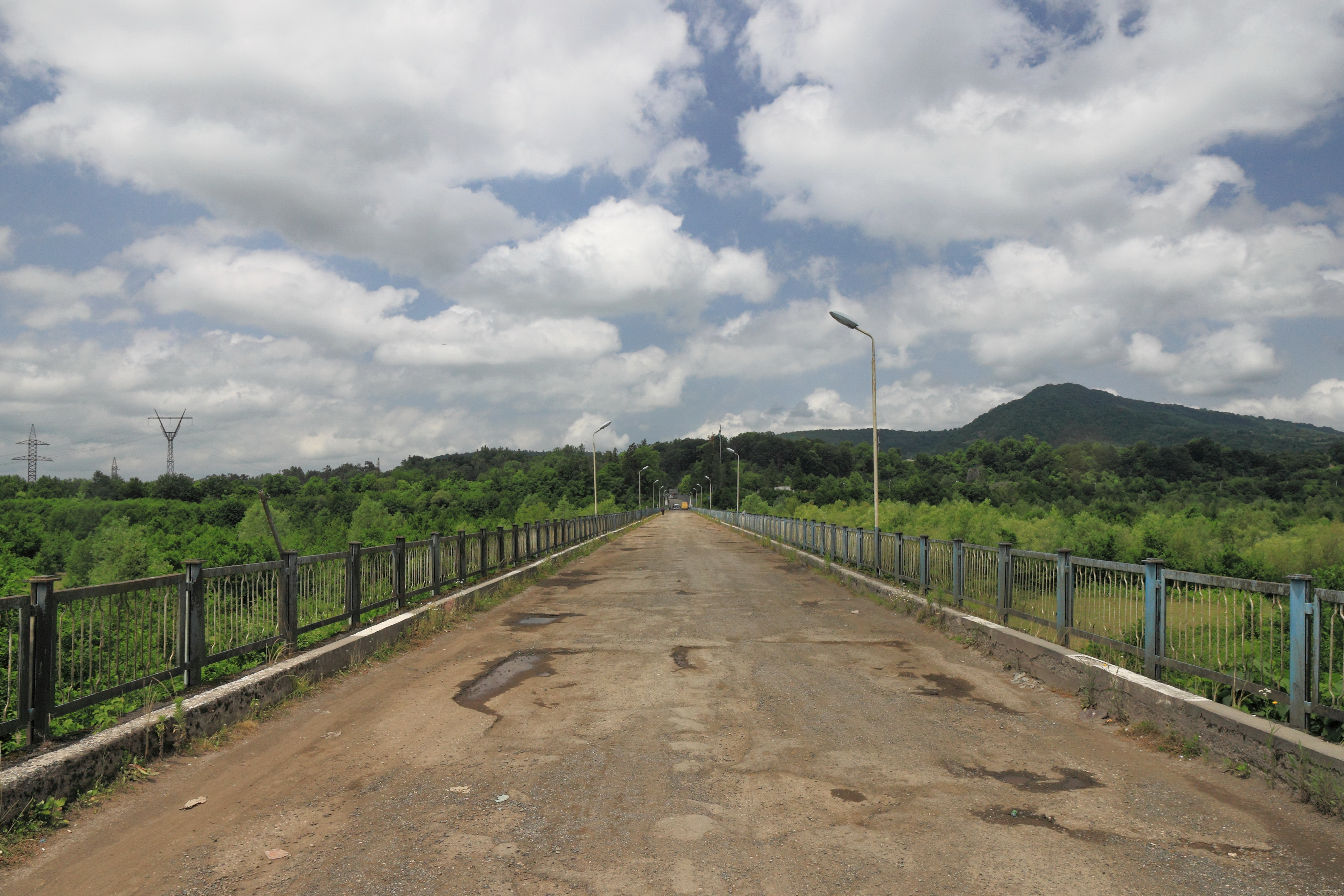 Bridge on the Inguri River. The border between Georgia and Abkhazia.